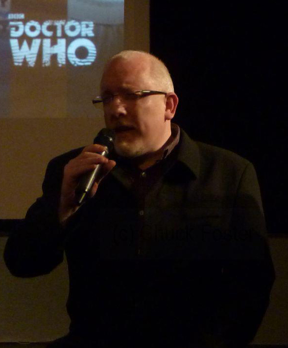 Stuart Humphryes on stage at the British Film Institute premiere of the re-colourised 'Mind of Evil' 10th March 2013